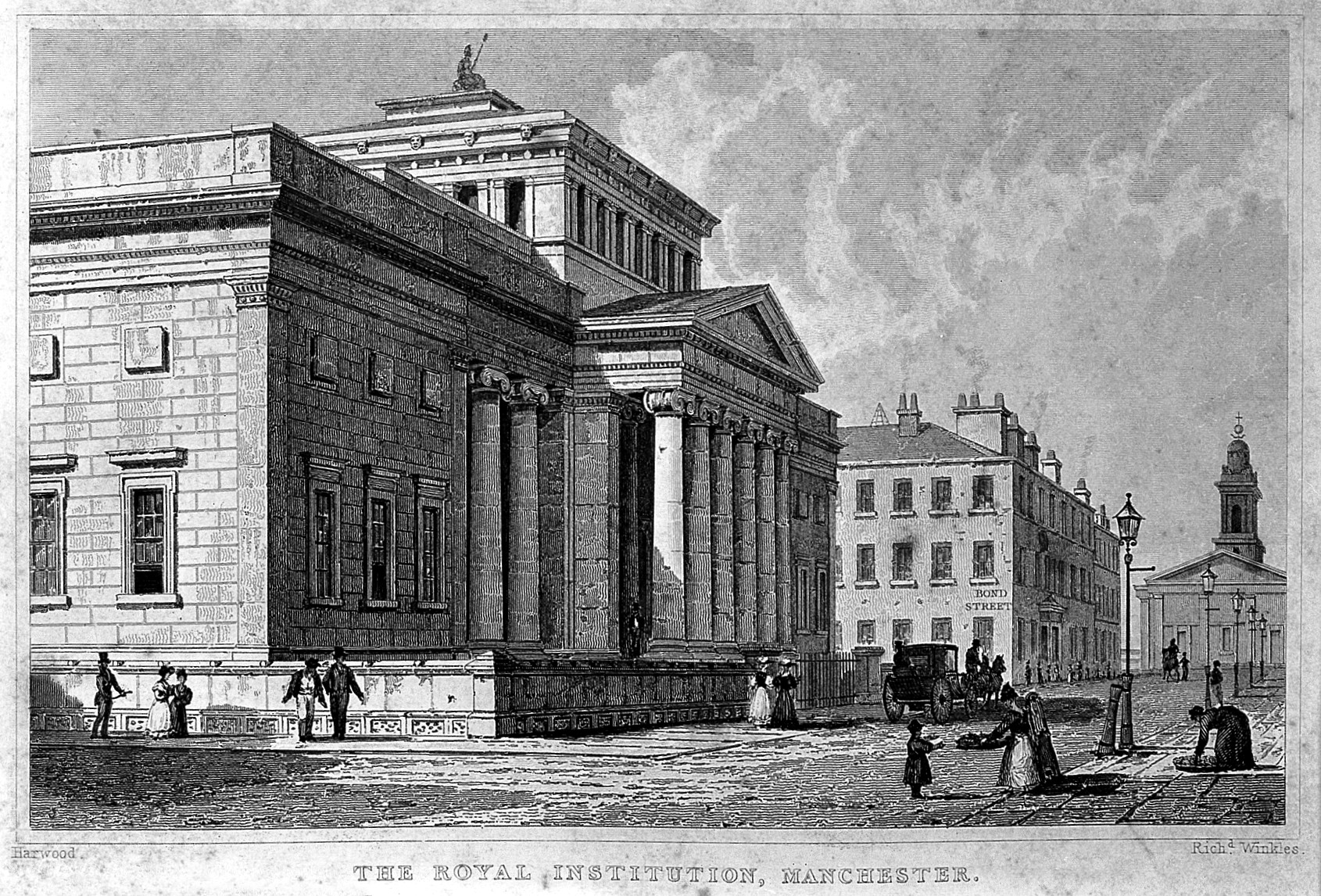 Iconographic Collections